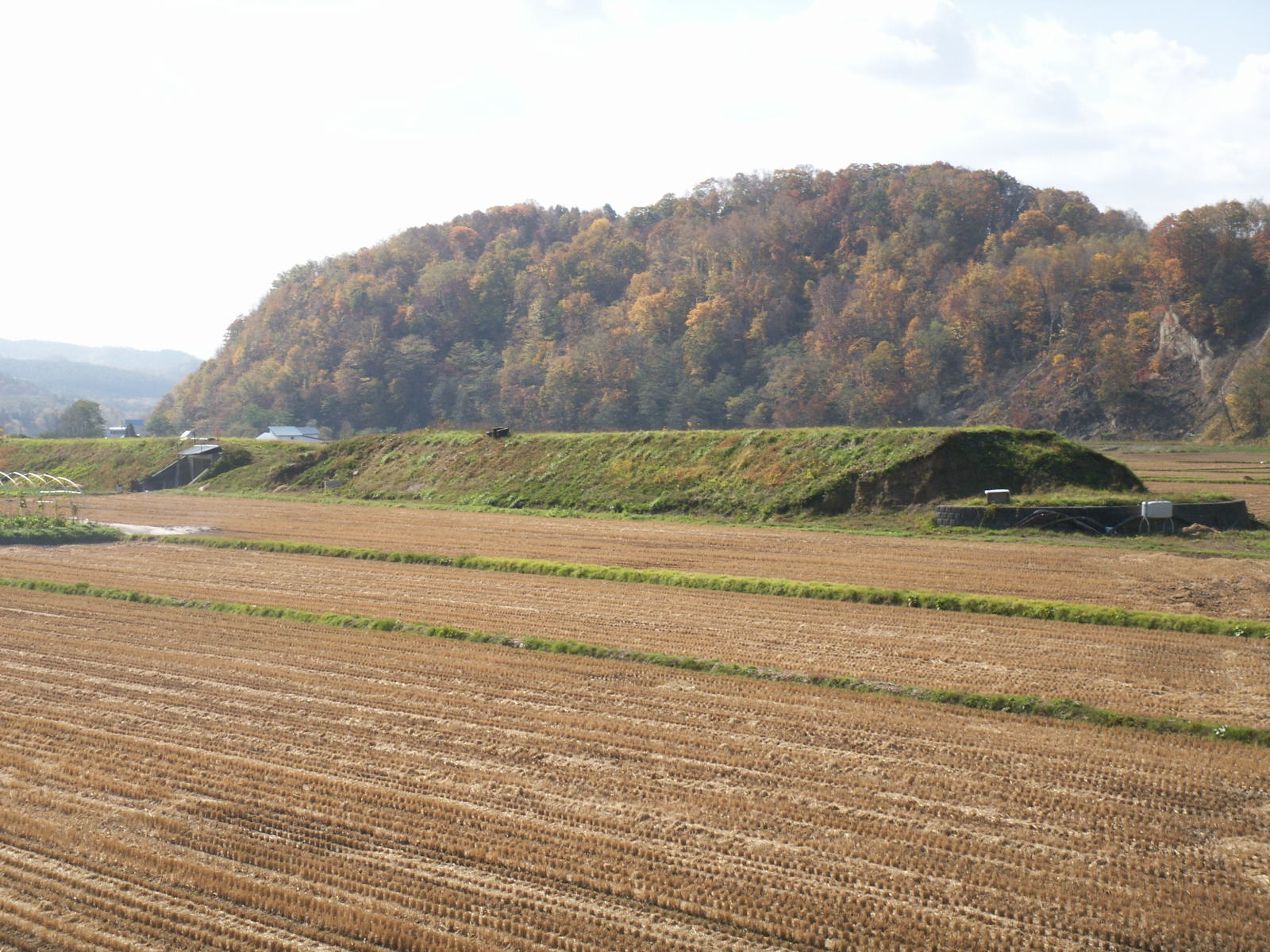 Roadbed in Japanese National Railways Ashibetsu line where it is scheduled to connect it from Ashibetsu Station to Fukagawa Station (Fukagawa City)